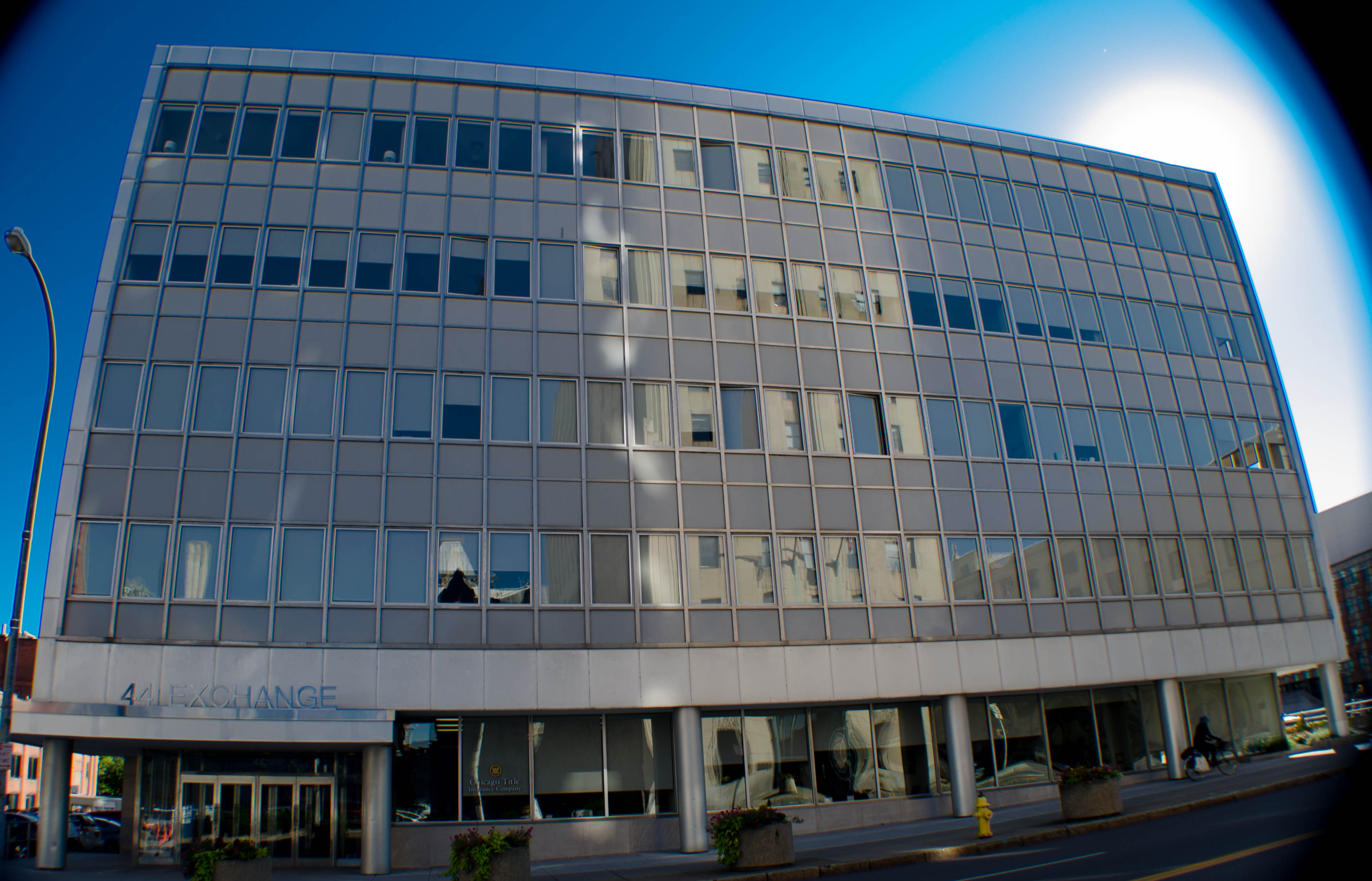 Central Trust Bank Building, 44 Exchange Blvd. Rochester